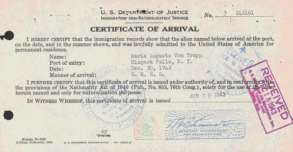 Maria von Trapp's certificate of arrival into Niagara Falls, NY, on December 30, 1942, authenticated that she arrived legally in the United States.